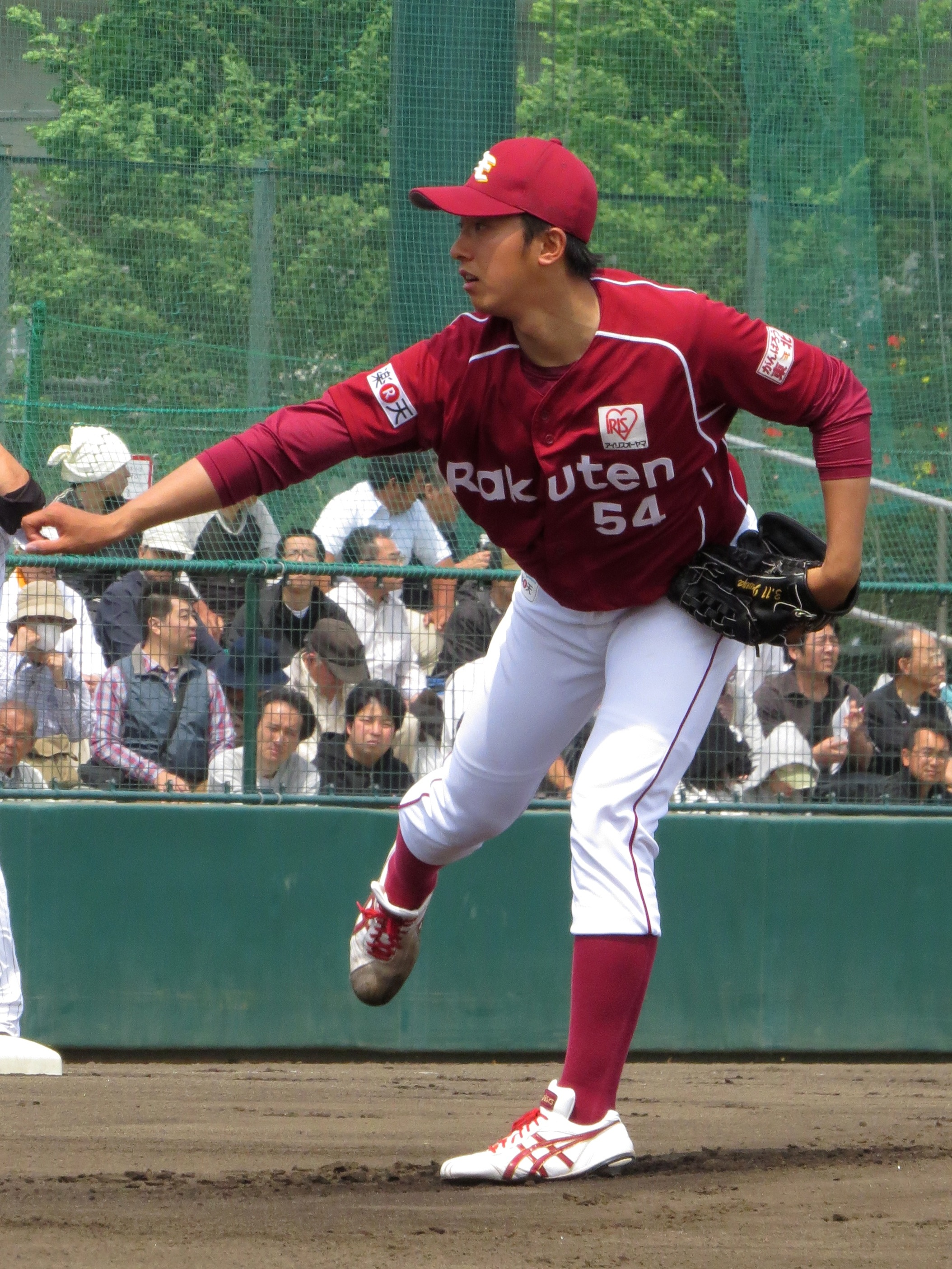 Takaaki Yokoyama, pitcher of the Tohoku Rakuten Golden Eagles, at Lotte Urawa Baseball Ground.